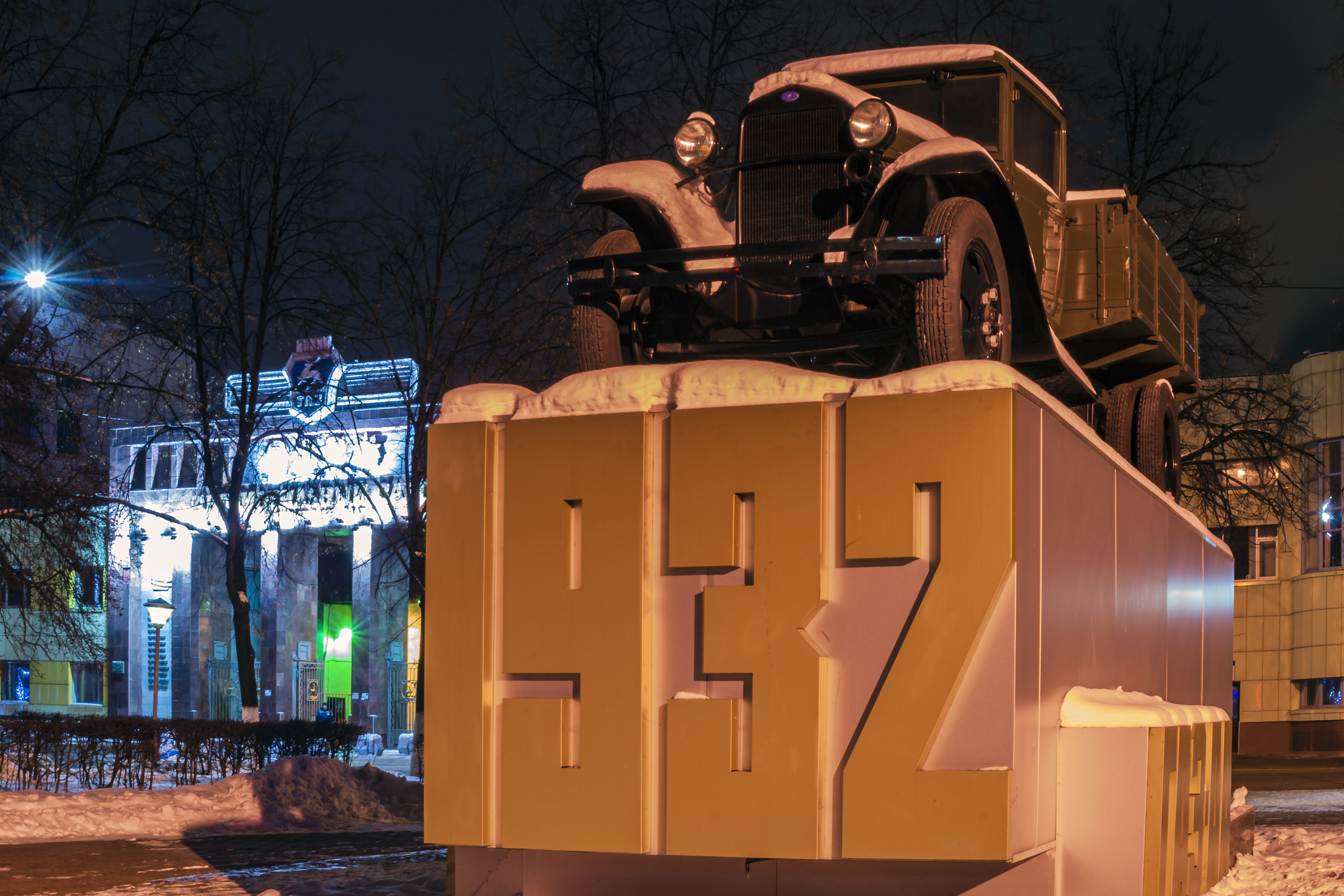 GAZ-AA on a pedestal near the main entrance of the Gorky Automobile Plant